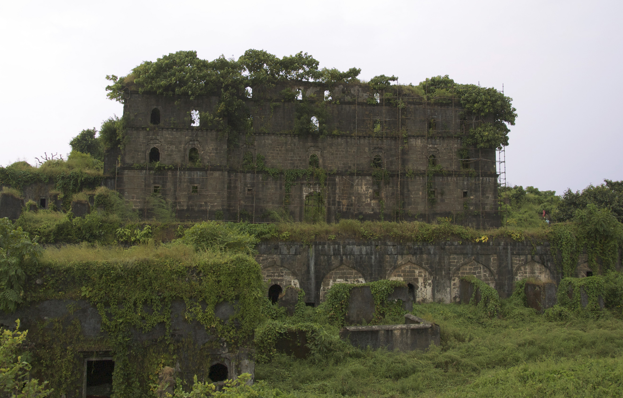 In its glory days, it used to be seven storey's high and supposedly a dome which stood above the seven storeys! The walls had viewing terraces built in from which the women folk of the palace could watch the "darbar" happening in the hall. Cannot even imagine a hall being seven storeys high! Unfortunately due to no maintenance it is now reduced to a three storey ruin! Murud-Janjira